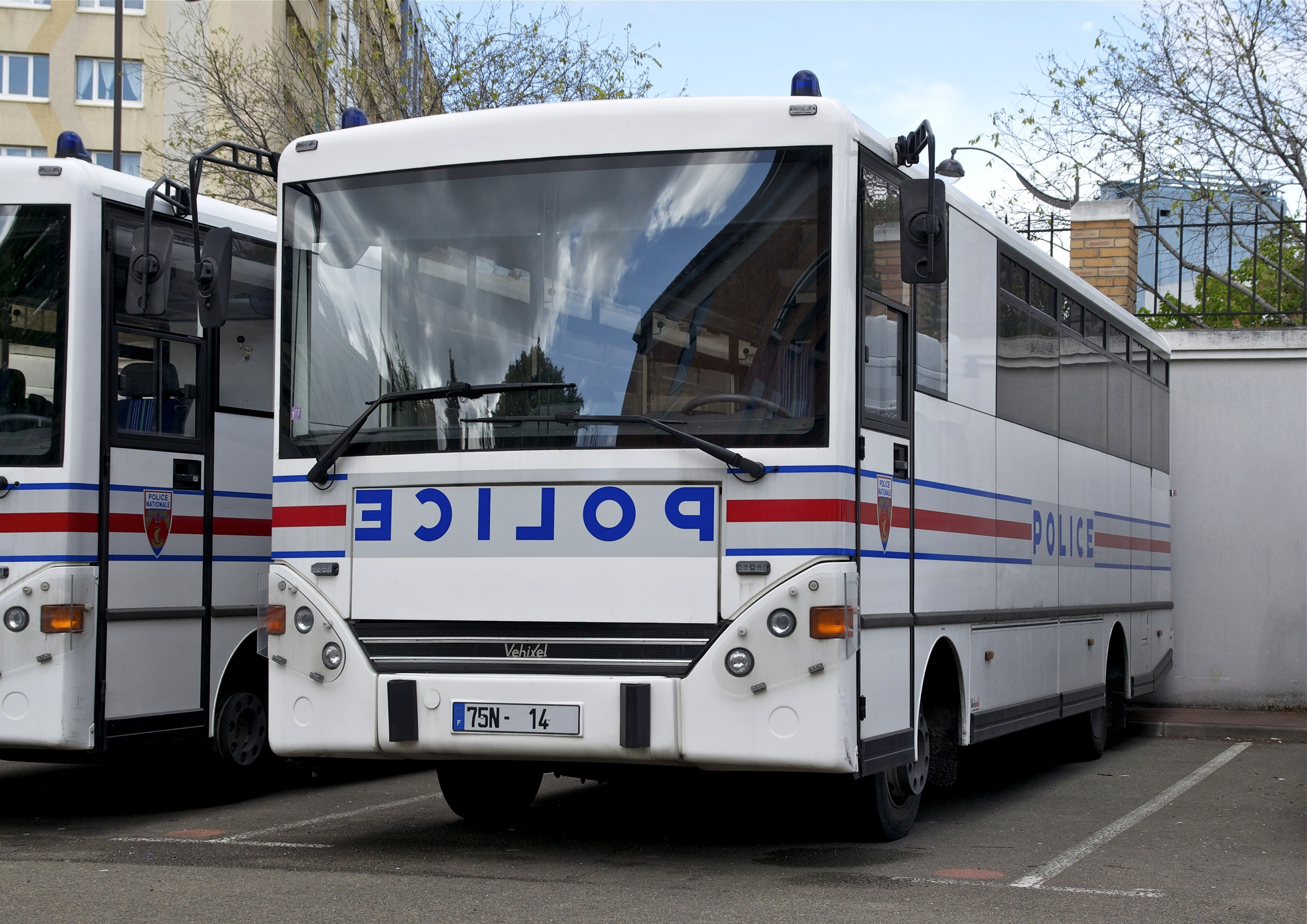 A "Vehixel" autobus of the French National Parisian Police